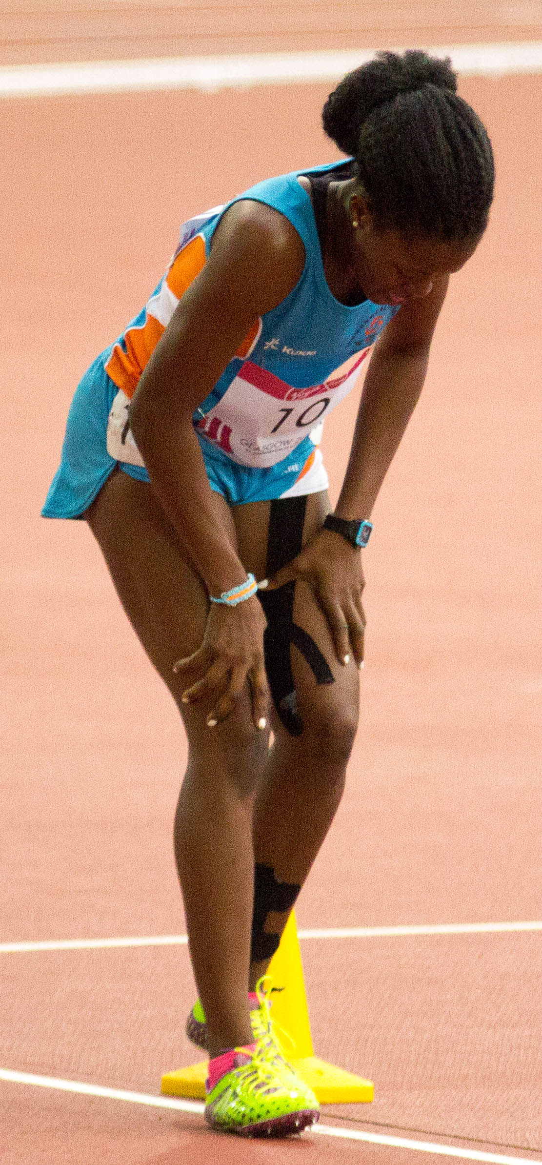 Dee-Ann Kentish-Rogers of Anguilla competing at the 2014 Commonwealth Games – Athletics Day 4 2014 Commonwealth Games Day 4: Athletics